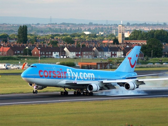 Corsairfly flight, Liverpool John Lennon Airport